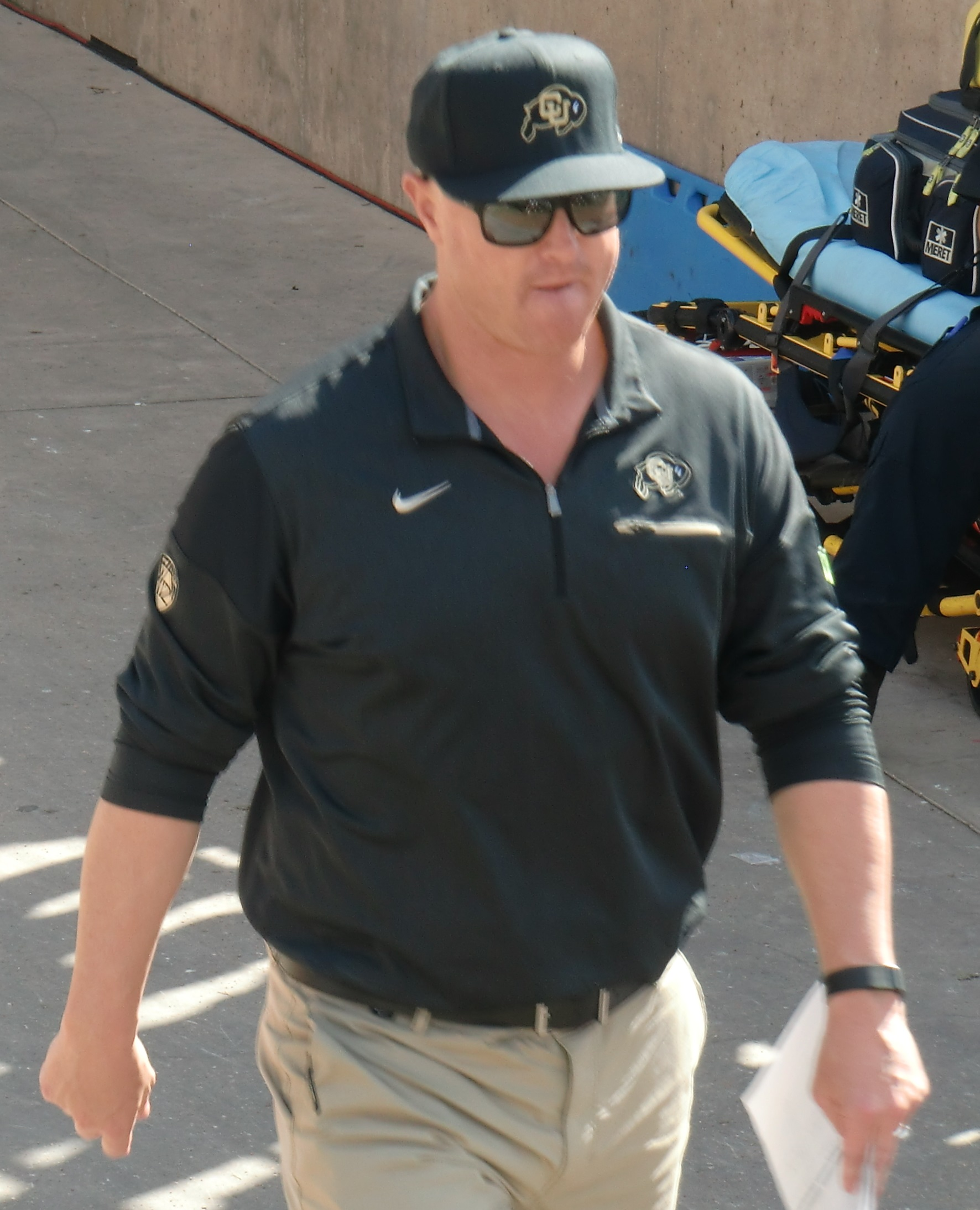 University of Colorado co-offensive coordinator and former NFL wide receiver Darrin Chiaverini at Stanford Stadium.